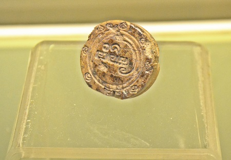 The actual image of the Ivory seal housed at the National Museum of the Philippines. Filipino: Ang aktwal na larawan ng garing pantatak na nasa pangangalaga ng Pambansang Museo ng Pilipinas.